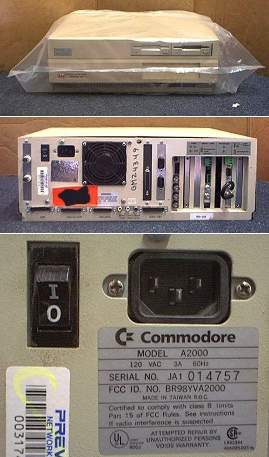 Picture of decommissioned Amiga 2000 machine, front and back, used for United Video's "Prevue Guide" and "TV Guide Channel" TV listings channels on cable TV systems throughout the United States and Canada until 1999.